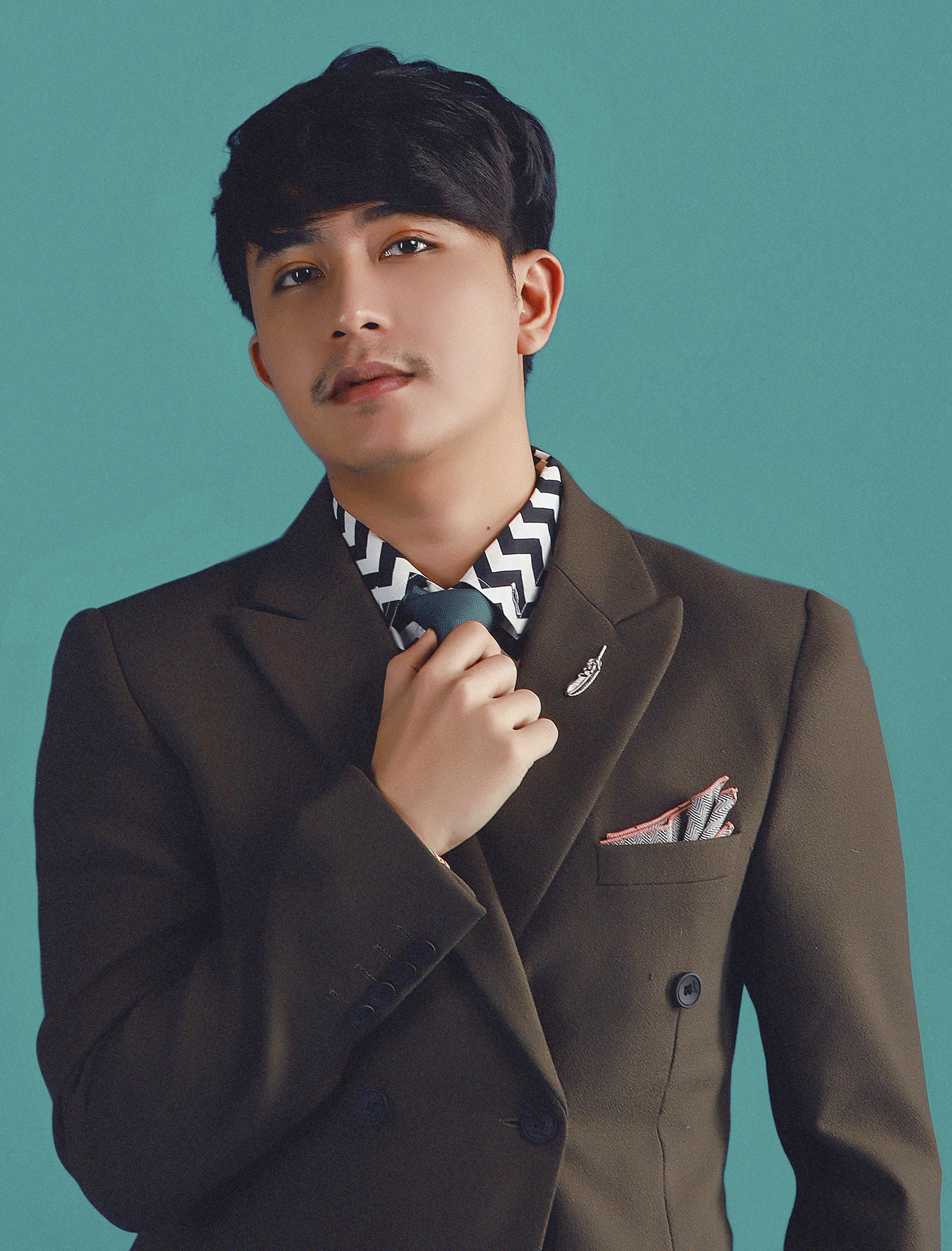 Thu Riya at photo shooting